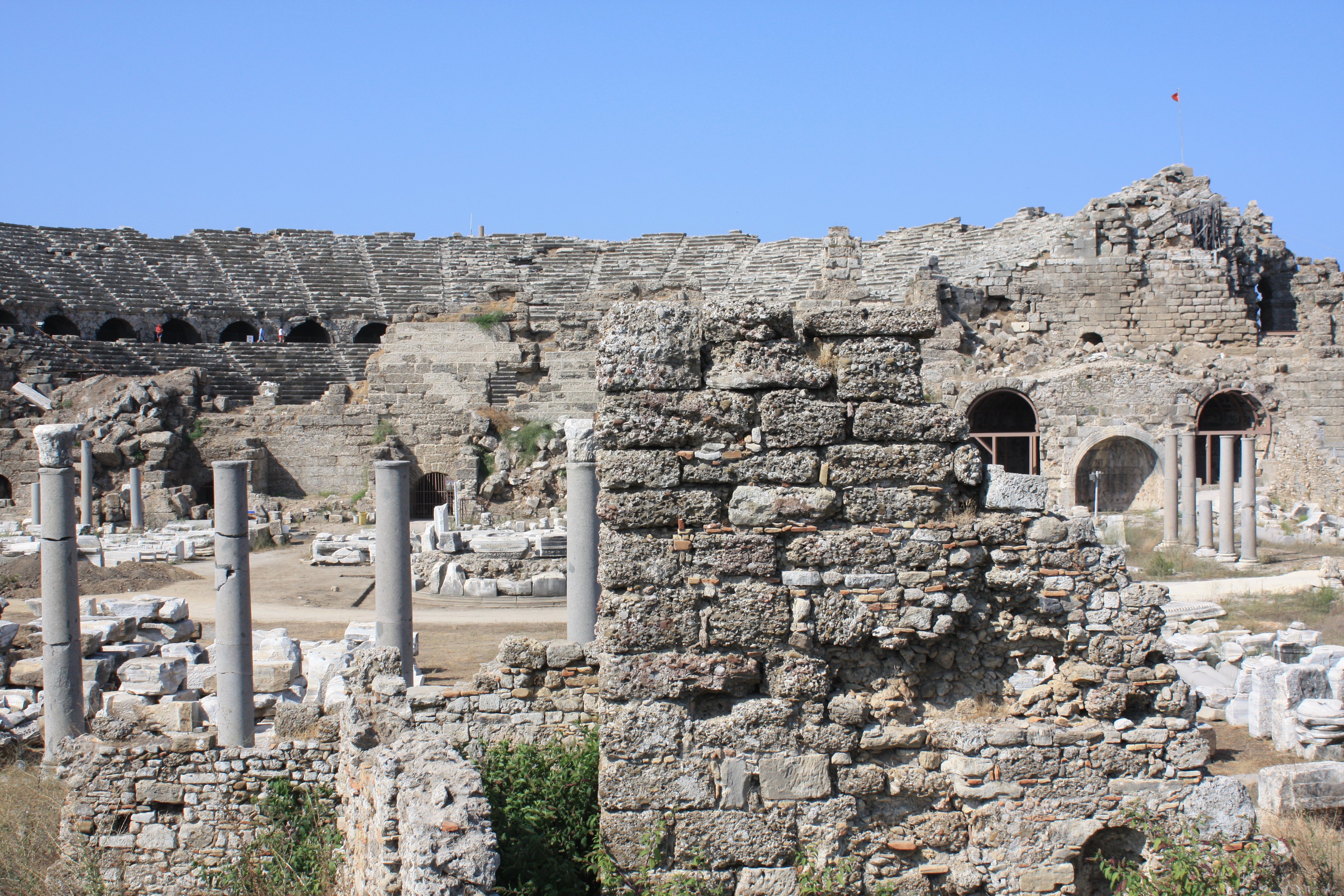 The ruins of an amphitheater in Side. Turkey, Antalya province.